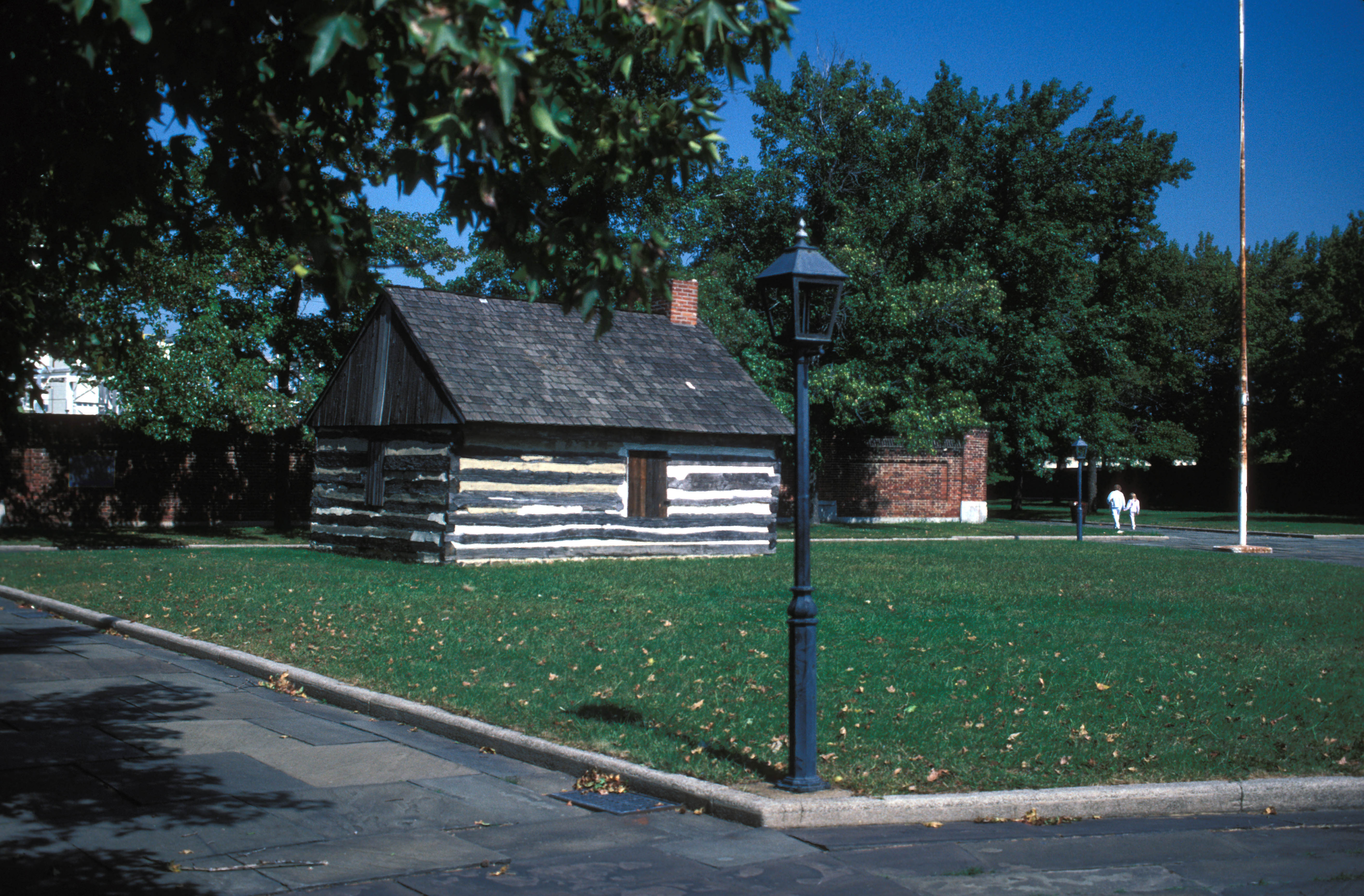 Early log cabin of the style brought over from Sweden, which was unknown to the English and Dutch settlers. Located in Fort Christina Park in Wilmington.